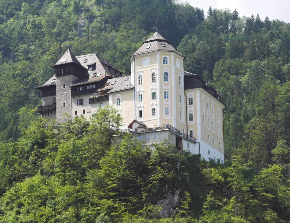 Schloss Klaus